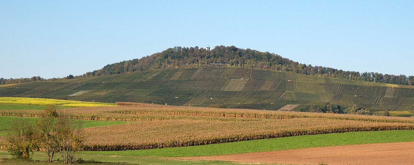 Wunnenstein, seen from the road Großbottwar–Winzerhausen.